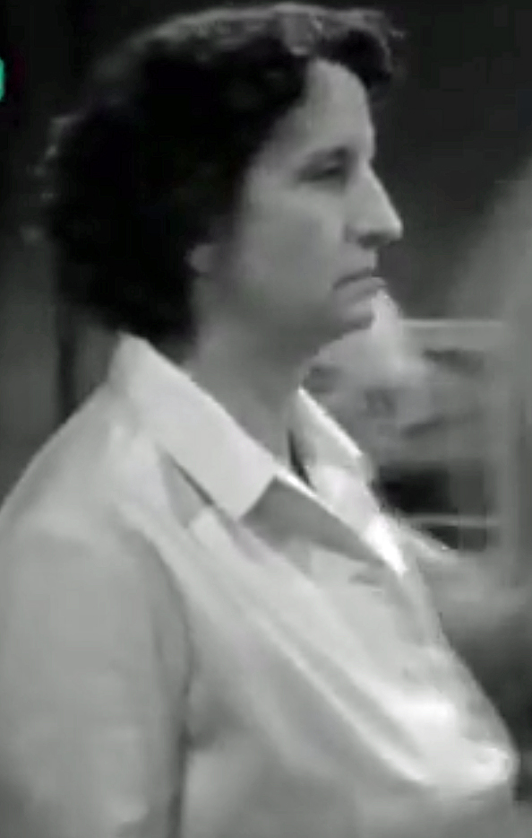 Hope Emerson in trailer to "Caged" (1950)